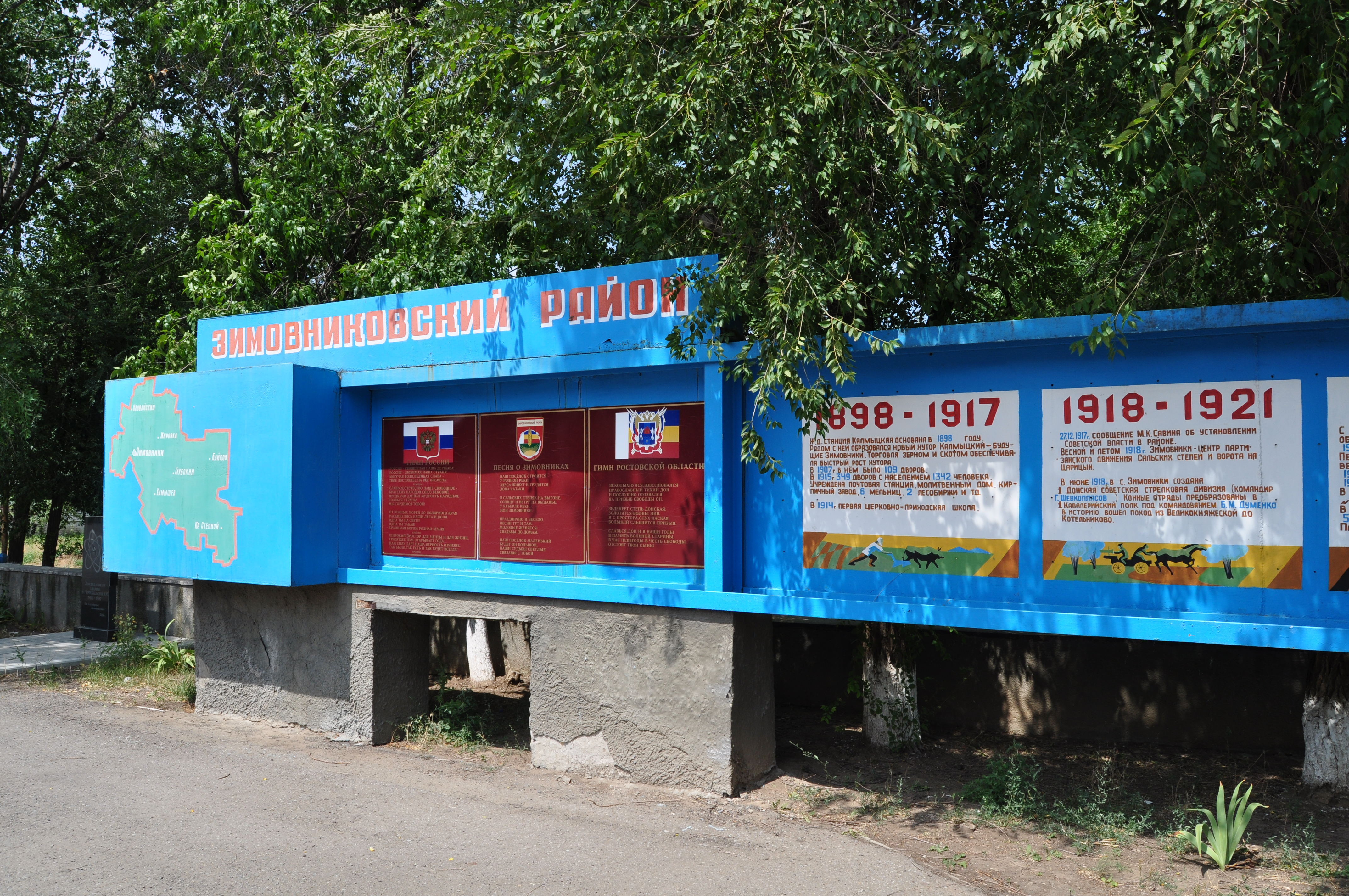 Information Board in front of administration of Zimovnikovsky area of the Rostov region